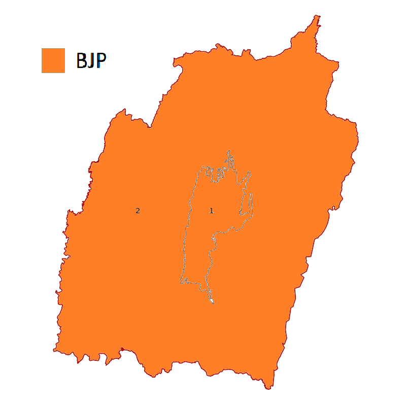 Seat Sharing of NDA in Manipur in General Election, 2019